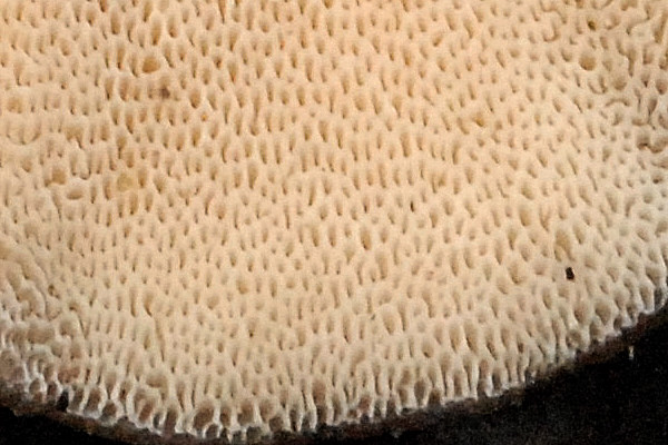 Polyporus brumalis from Commanster, Belgium. The determination of the species shown in this picture has been verified.